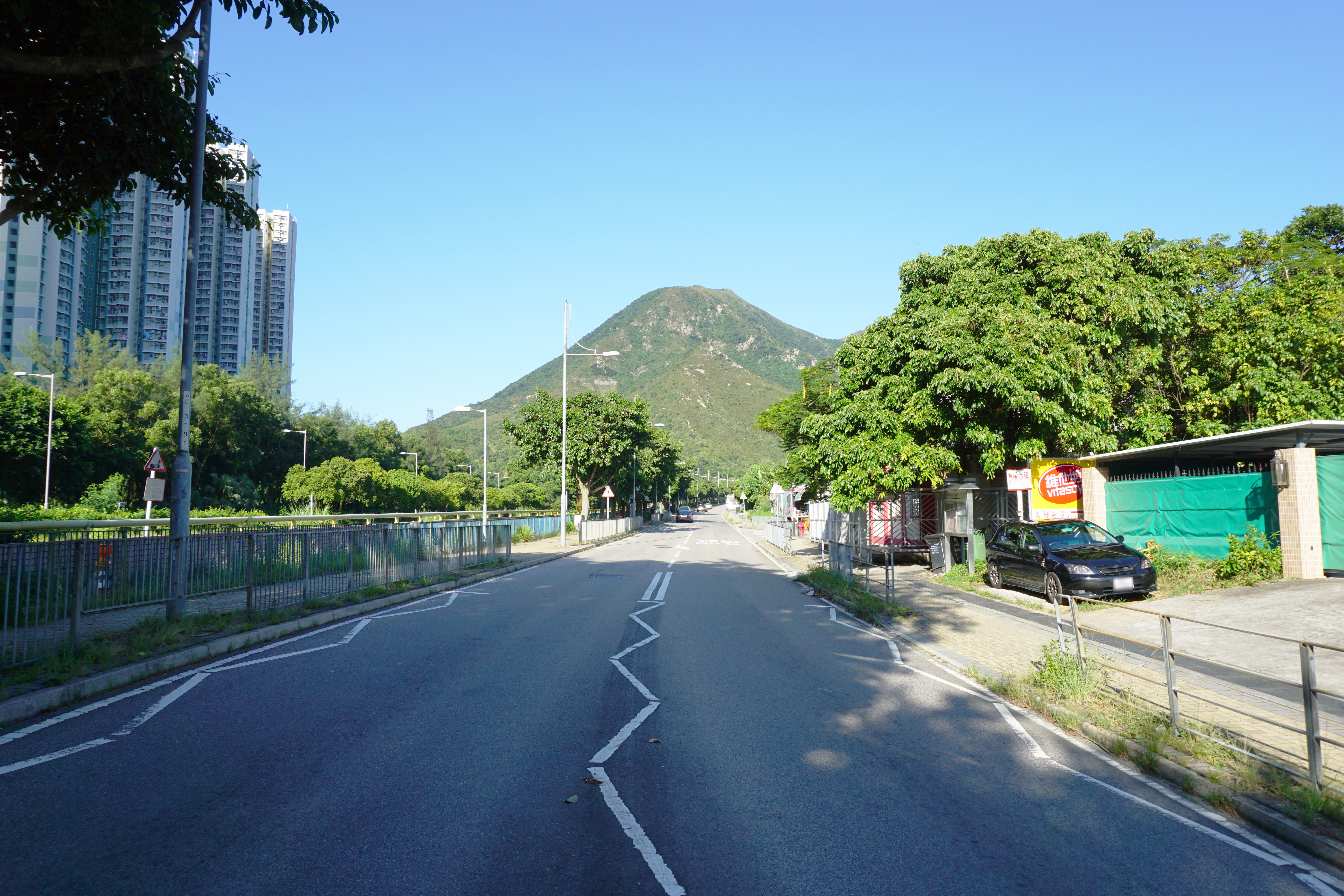 Tung Chung Road in Tung Chung, Hong Kong.